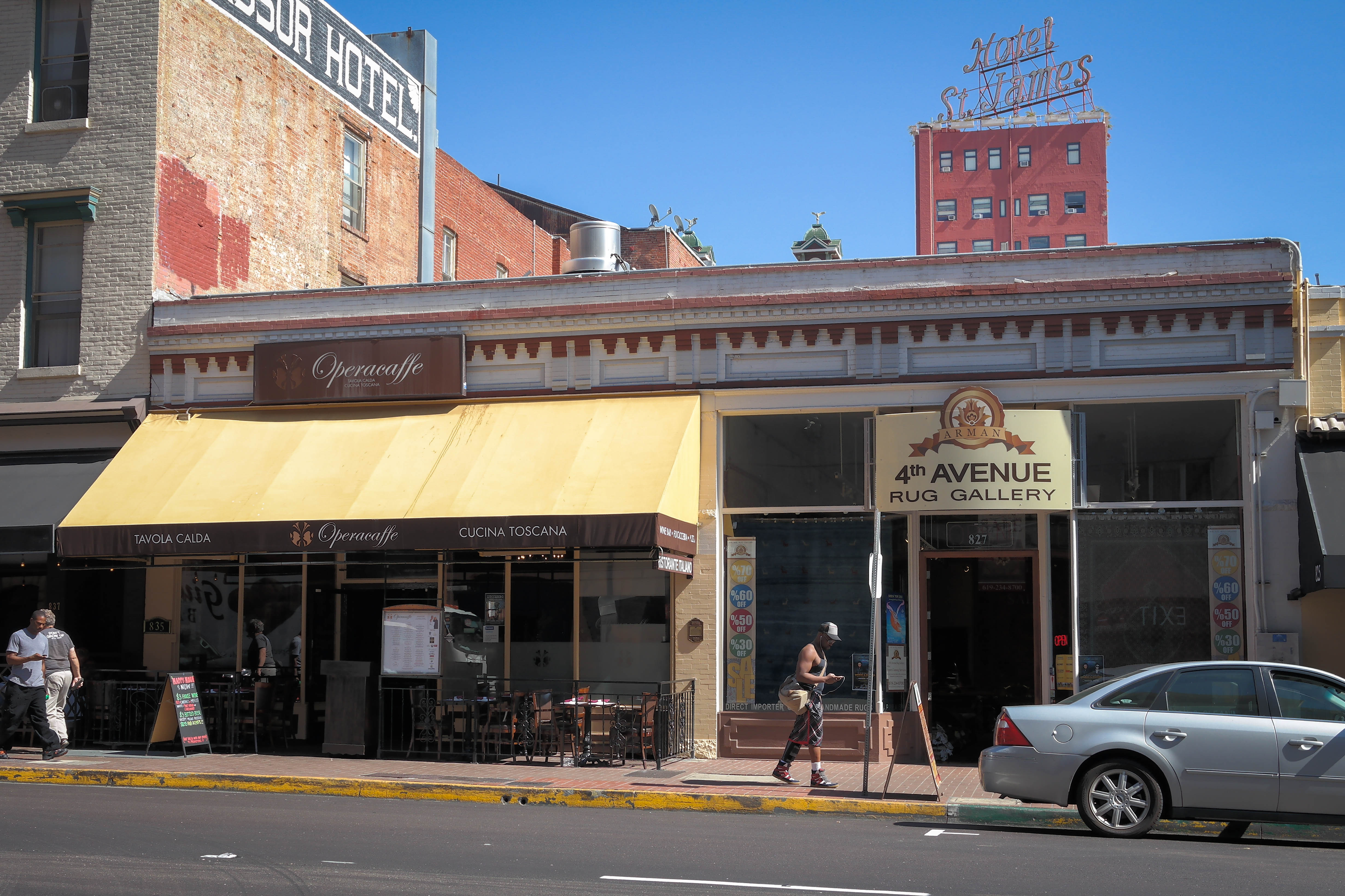 Historic Building Survey plaque: "17 Panama Cafe, 1907. The south half of this building was first occupied by the Coffee Club Association, which was dedicated to establishing places for refreshment without liquor or tobacco. From 1917 to 1954, Crane's Panama Lunchroom, known as the Panama Cafe to the regular patrons, was a popular restaurant here. The north half of the building was used as a sporting goods shop."